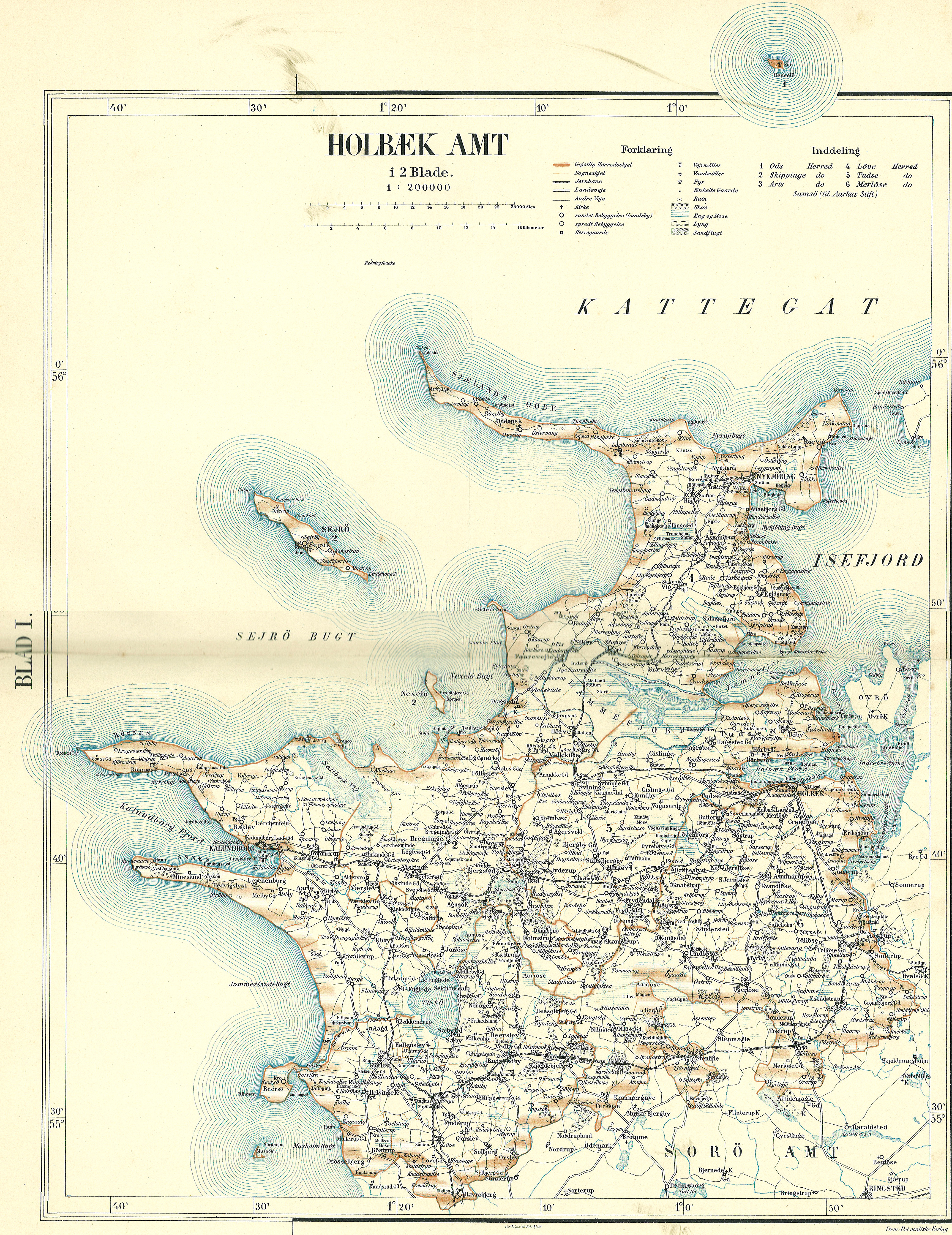 Map of Holbæk County in Denmark